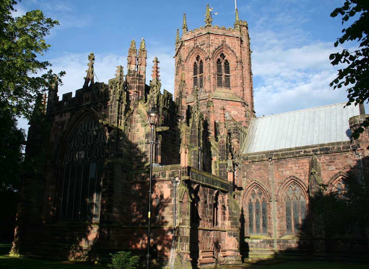 St Mary's parish church, Nantwich, Cheshire, seen from the northeast